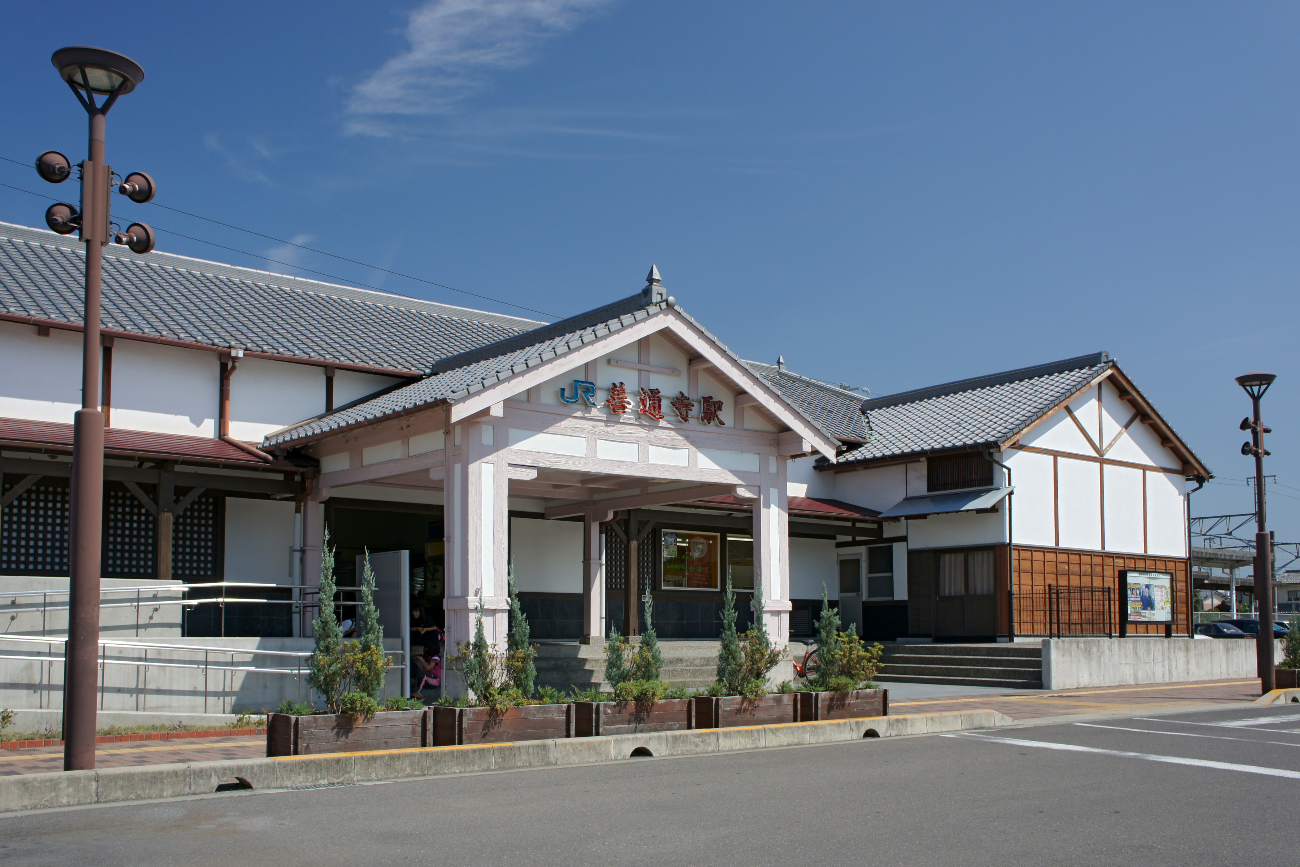 Zentsūji Station in Zentsūji City, Kagawa prefecture, Japan